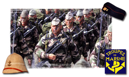 Pictures of the Marines (France) Army.